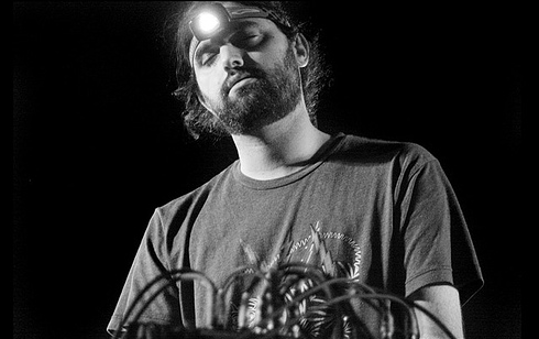 Picture of Geologist